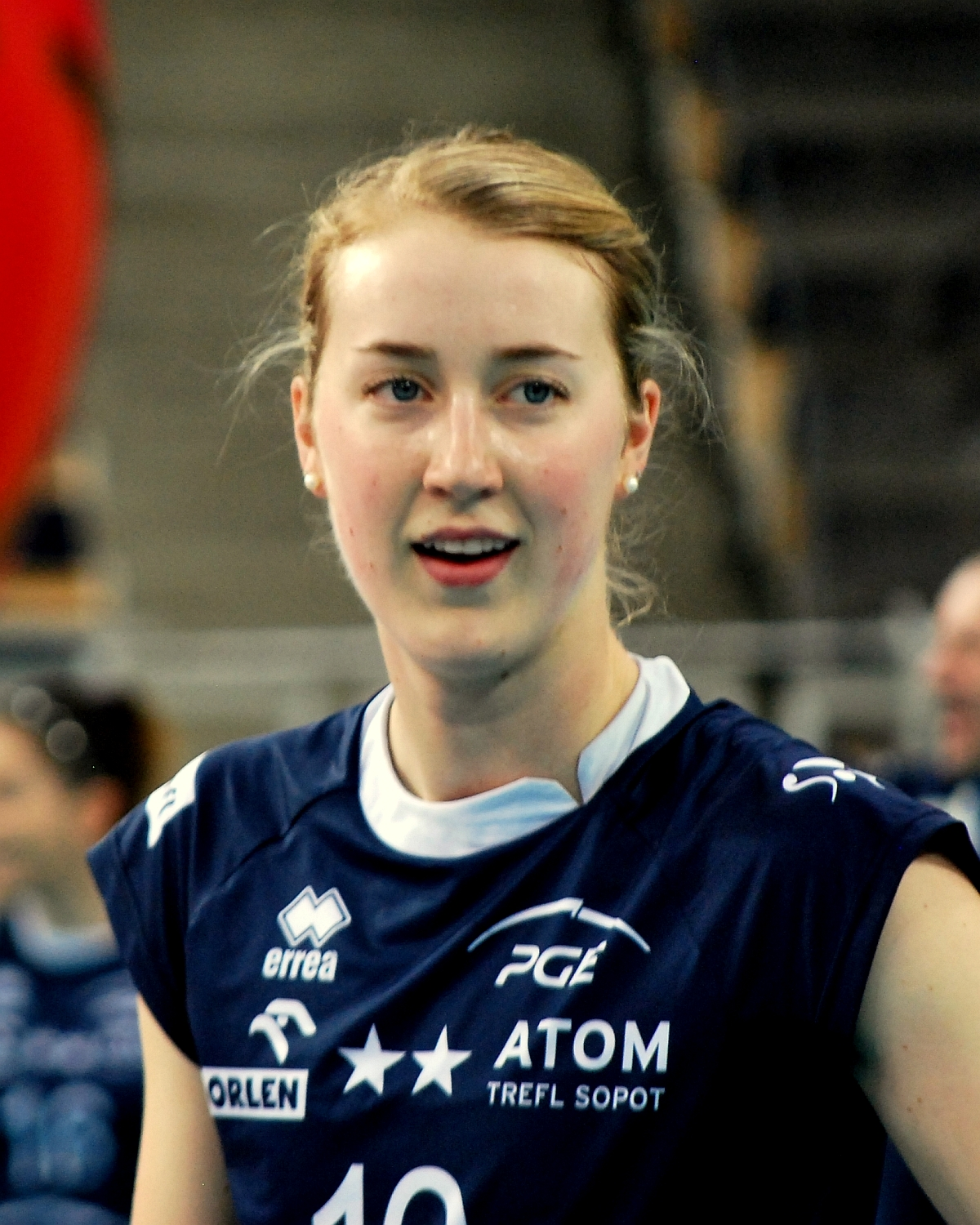 Kimberly Hill, volleyball player from the USA